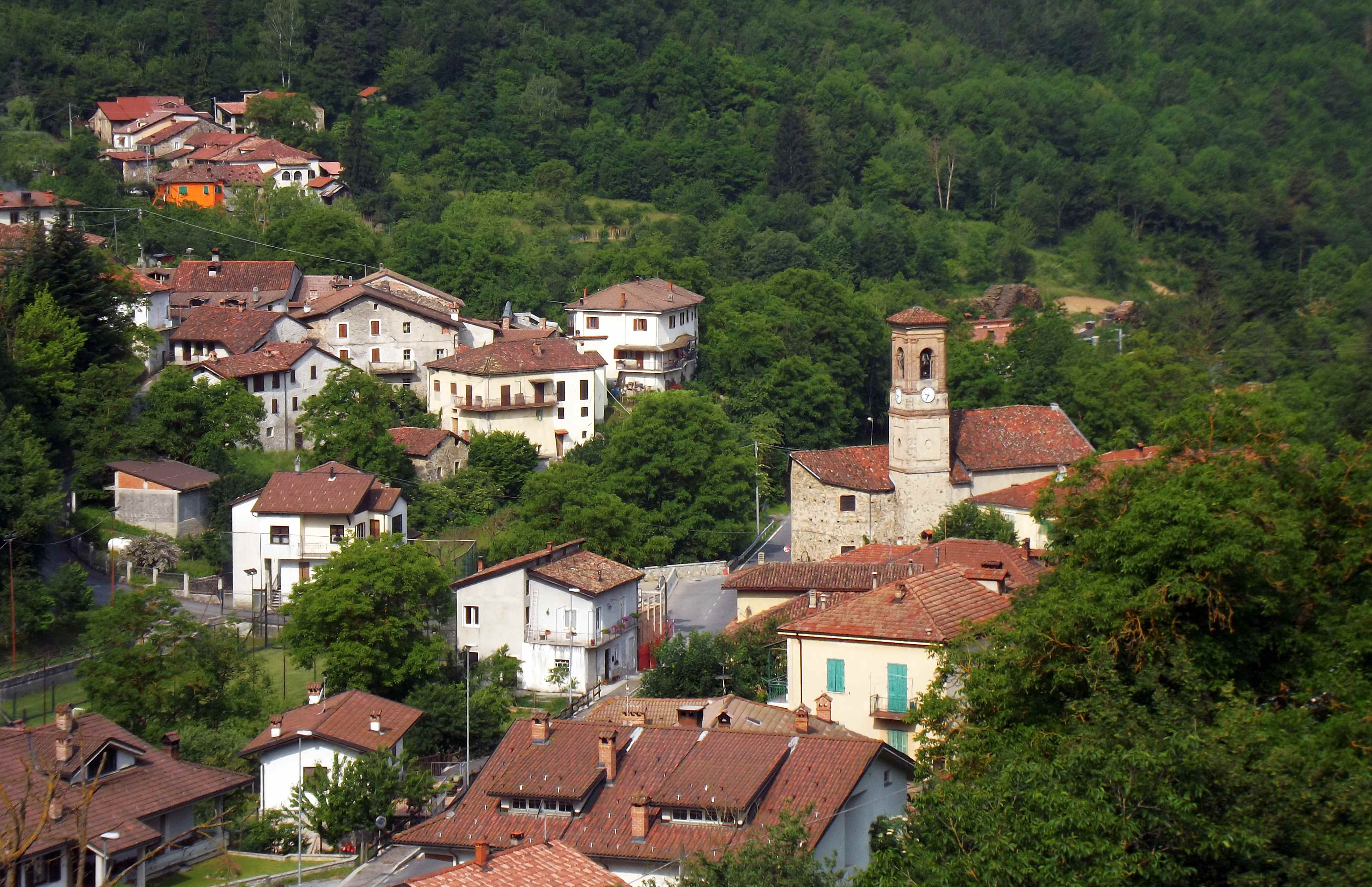 Massimino (SV, Italy): panorama